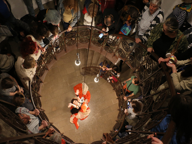 Dedicated for 35 yeaars Jubilee Theater Mimart 2019